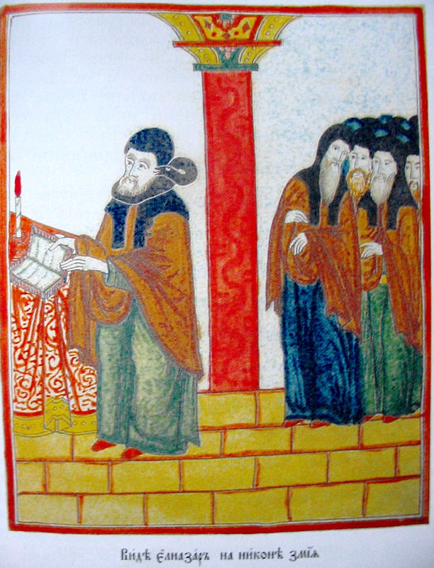 Eleazar of Anzer have the vision of a snake embracing Patriarch Nikon.